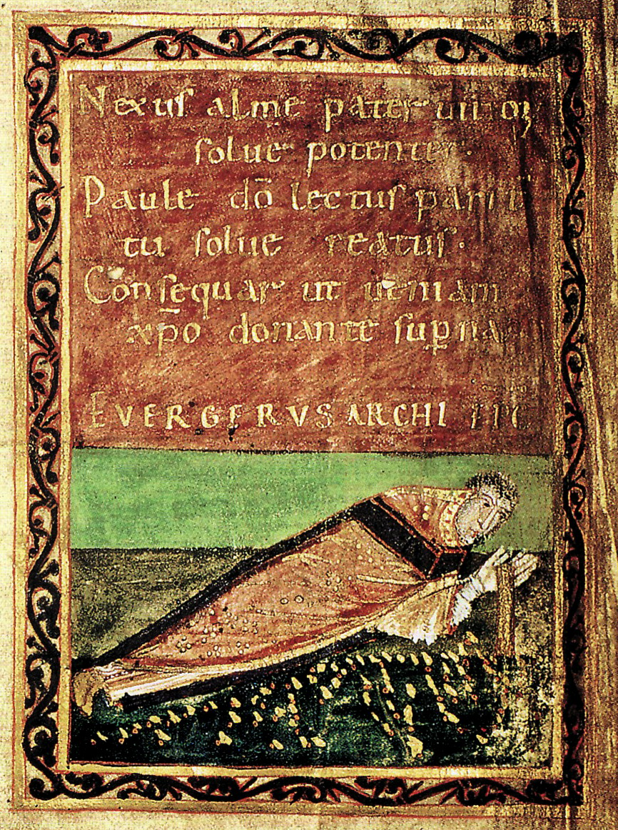 Donor image of archbishop Everger (Ebergar) of Cologne in the so-called Everger Epistolarium, 10th c. (Library of Cologne Cathedral)